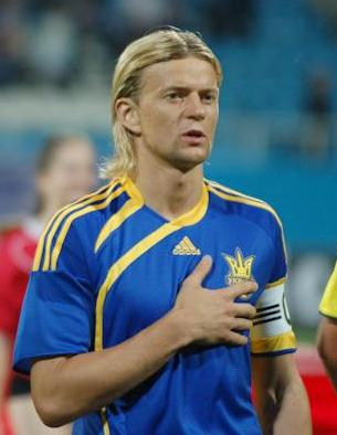 Anatoliy Tymoshchuk in Ukraine national football team